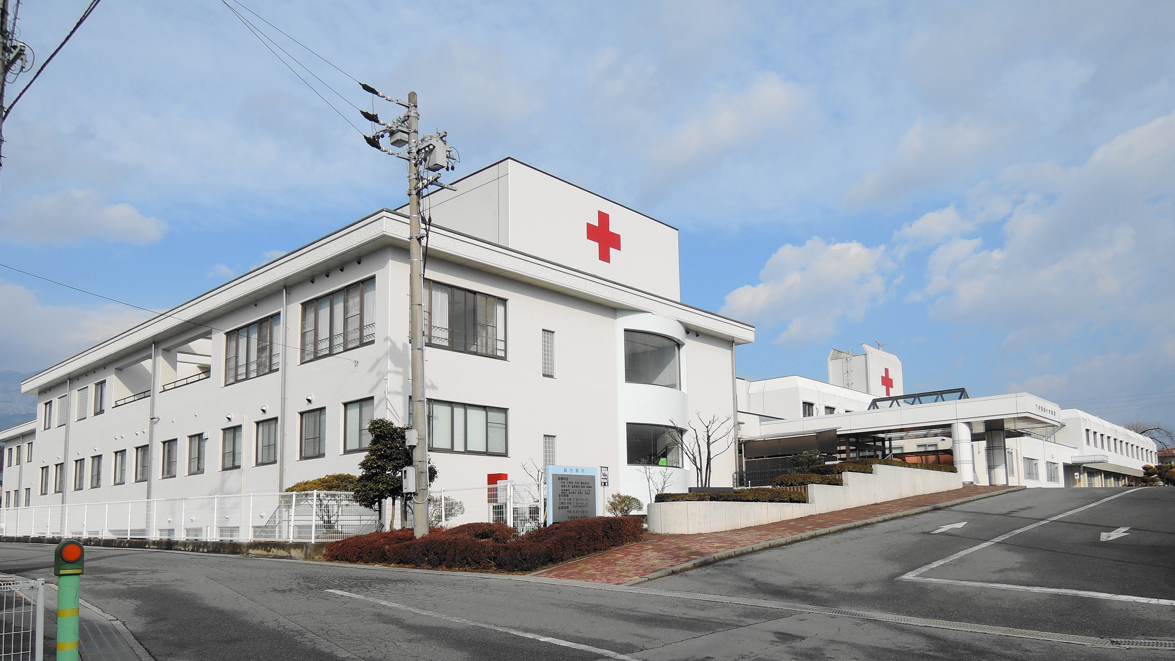 Shimoina Red cross hospital,Nagano prefecture, Japan